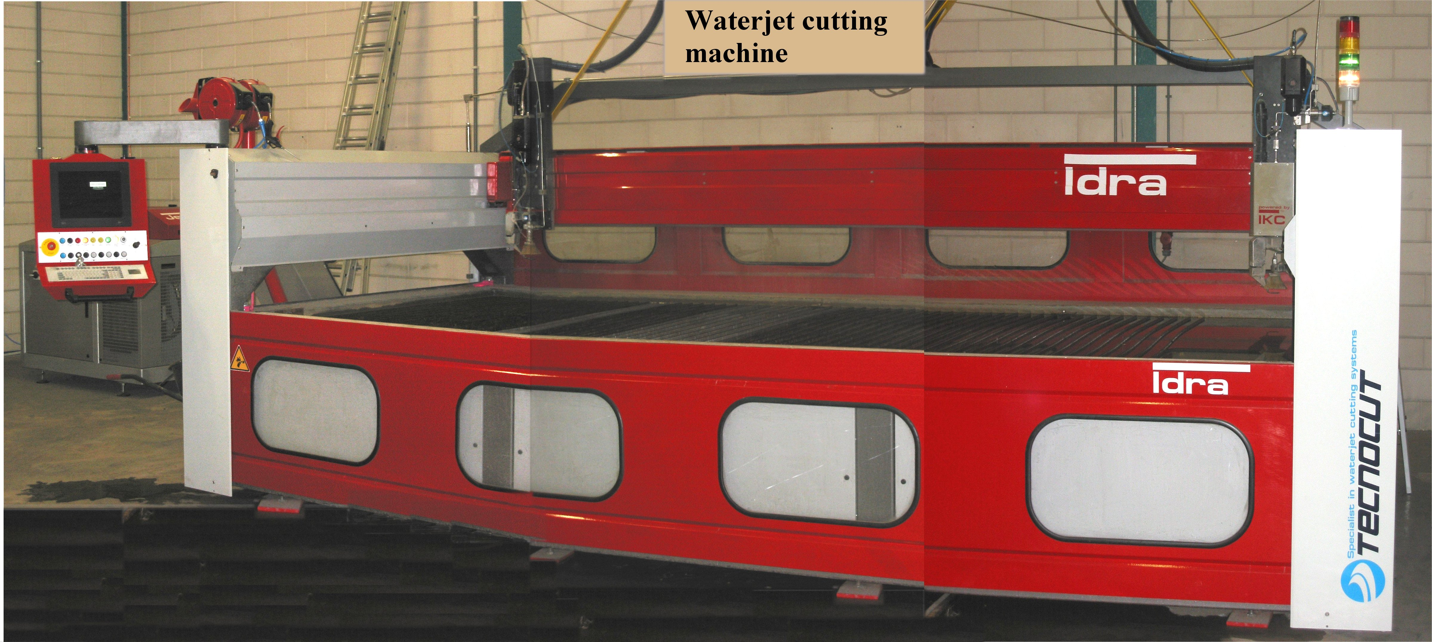 Water jet cutting machine.